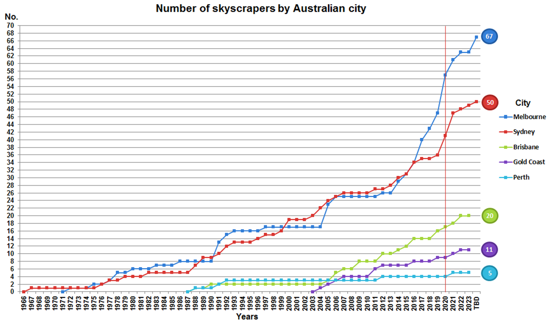 Number of skyscrapers in Australia (per region) over 150 metres in height, since 1960's